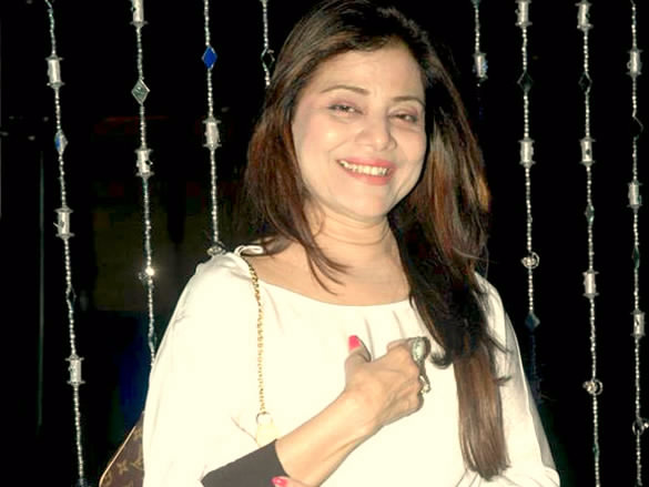 Sapna Mukherjee at Vivek and Parvez's bash